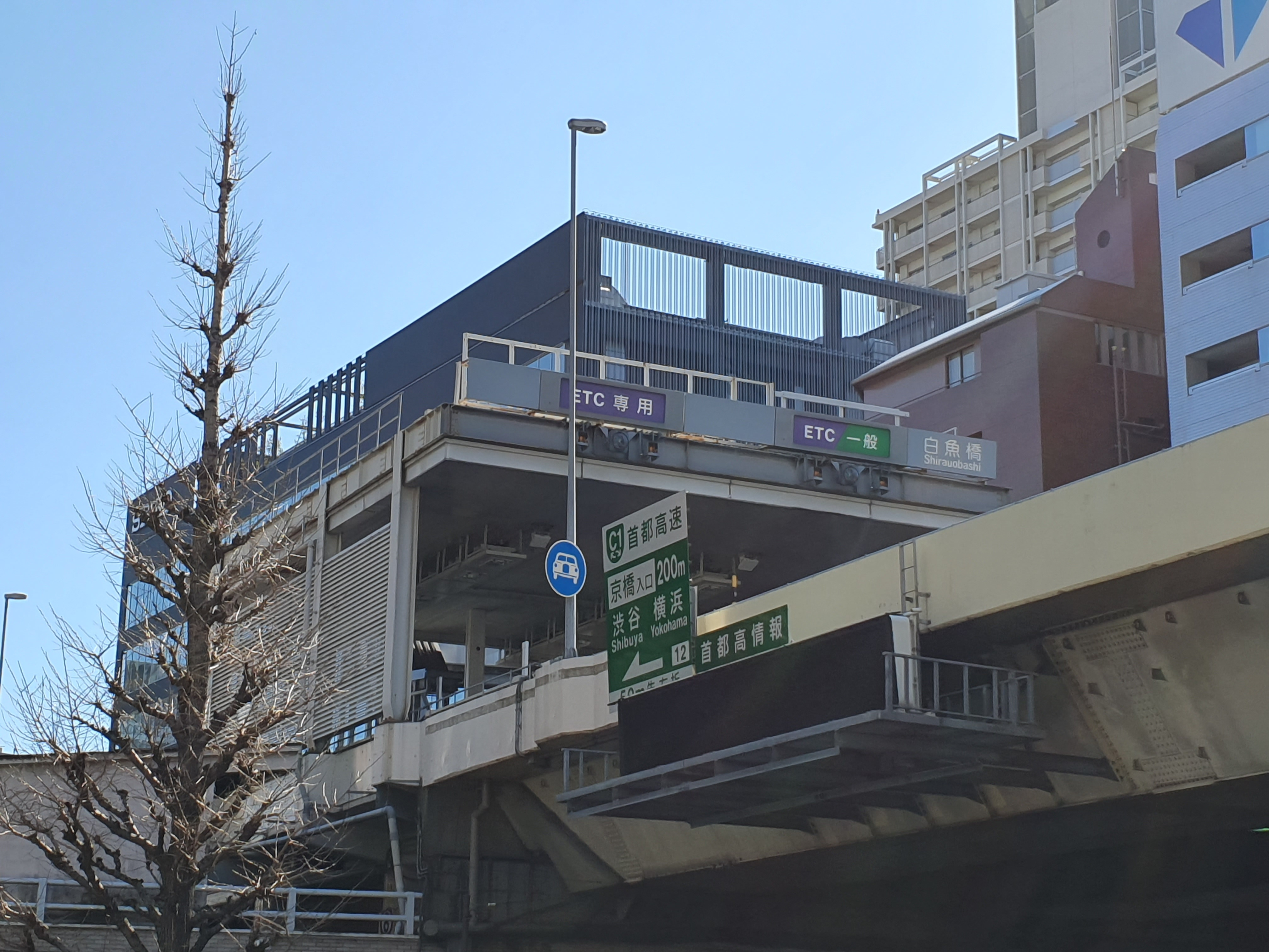 toll booth